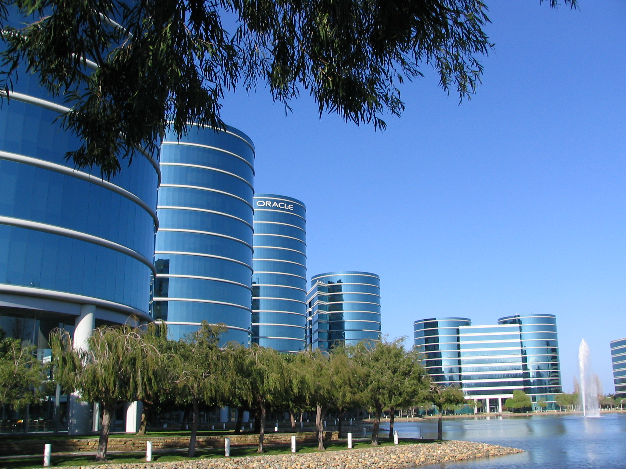 Oracle headquarters in Redwood Shores.